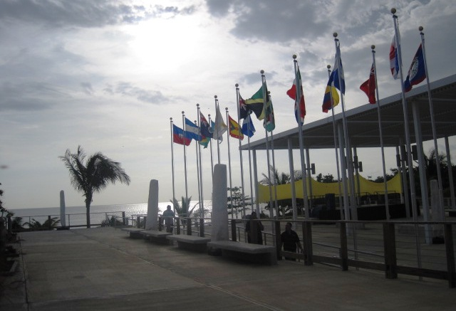 Parque del Litoral in Mayaguez